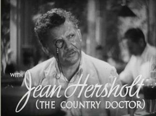 Jean Hersholt in the trailer of the 1936 film His Brother's Wife.